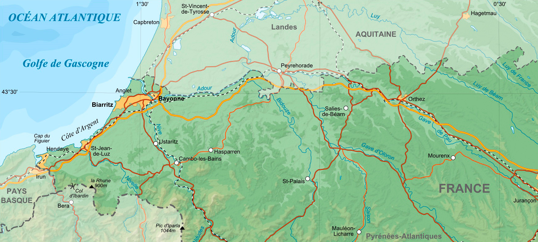 Map of French department of Pyrenees-Atlantiques cropped to show only the area between Bayonne and Orthez.